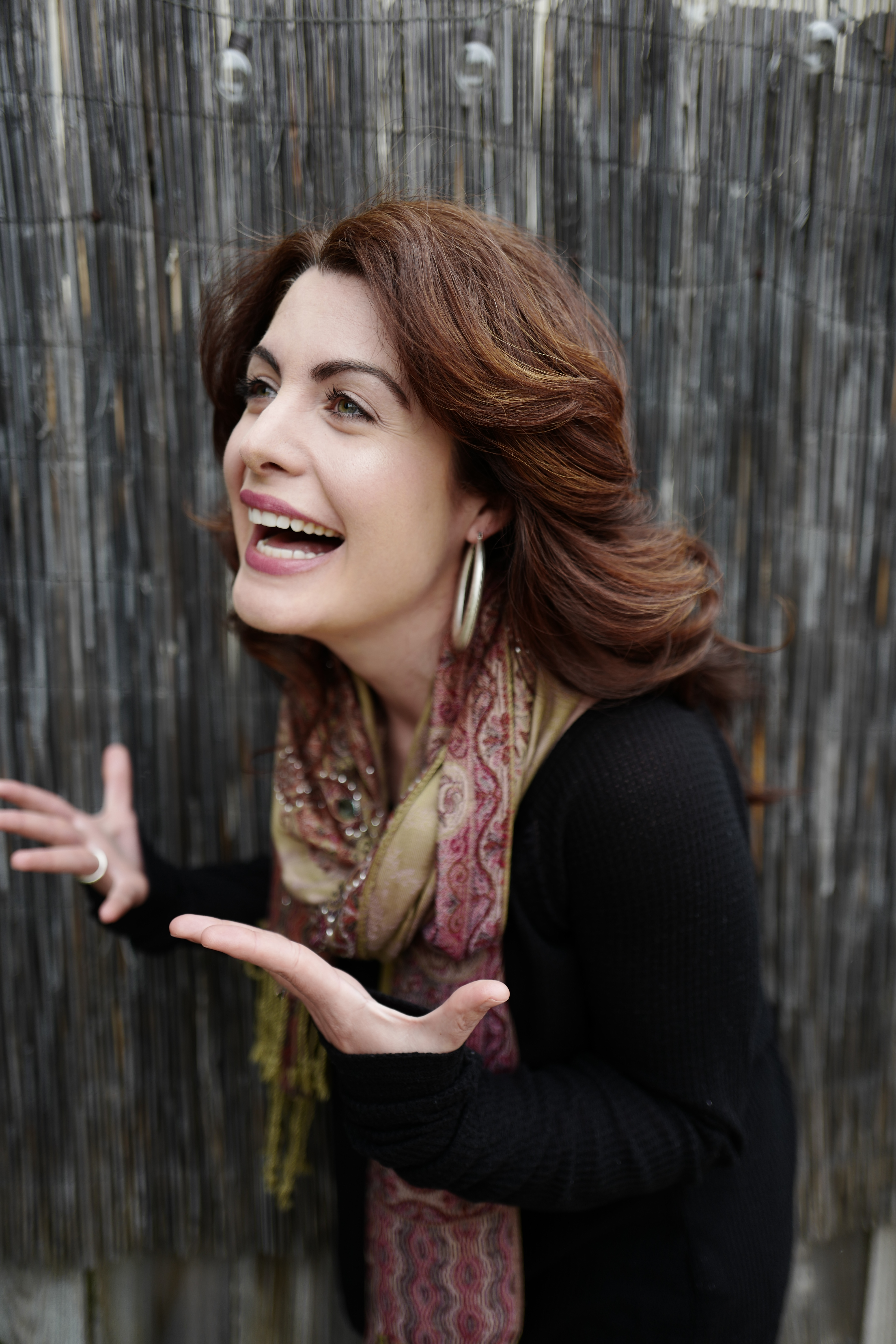 Rebecca Calisi, photographed in 2018